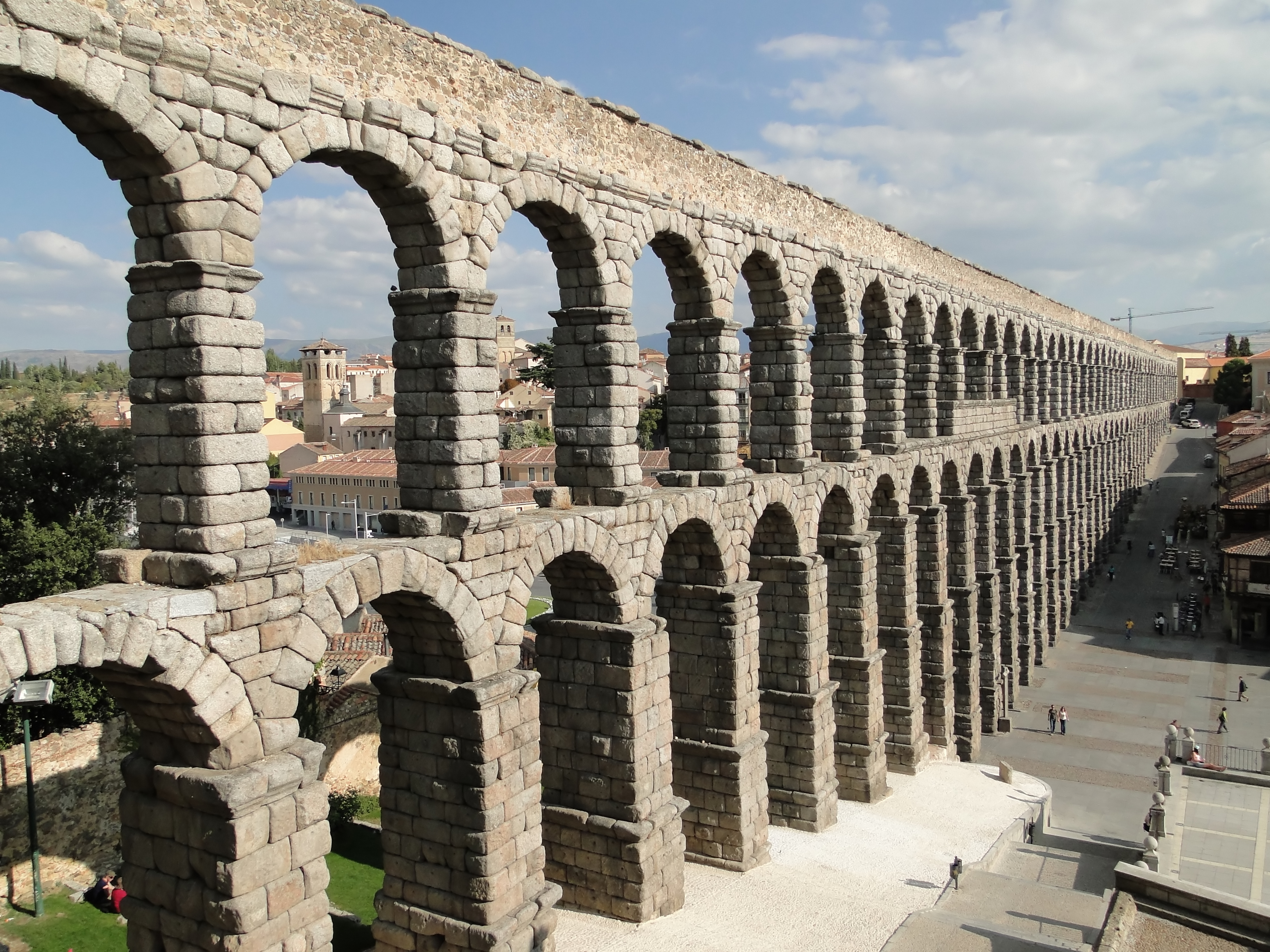 Aqueduct of Segovia, Spain